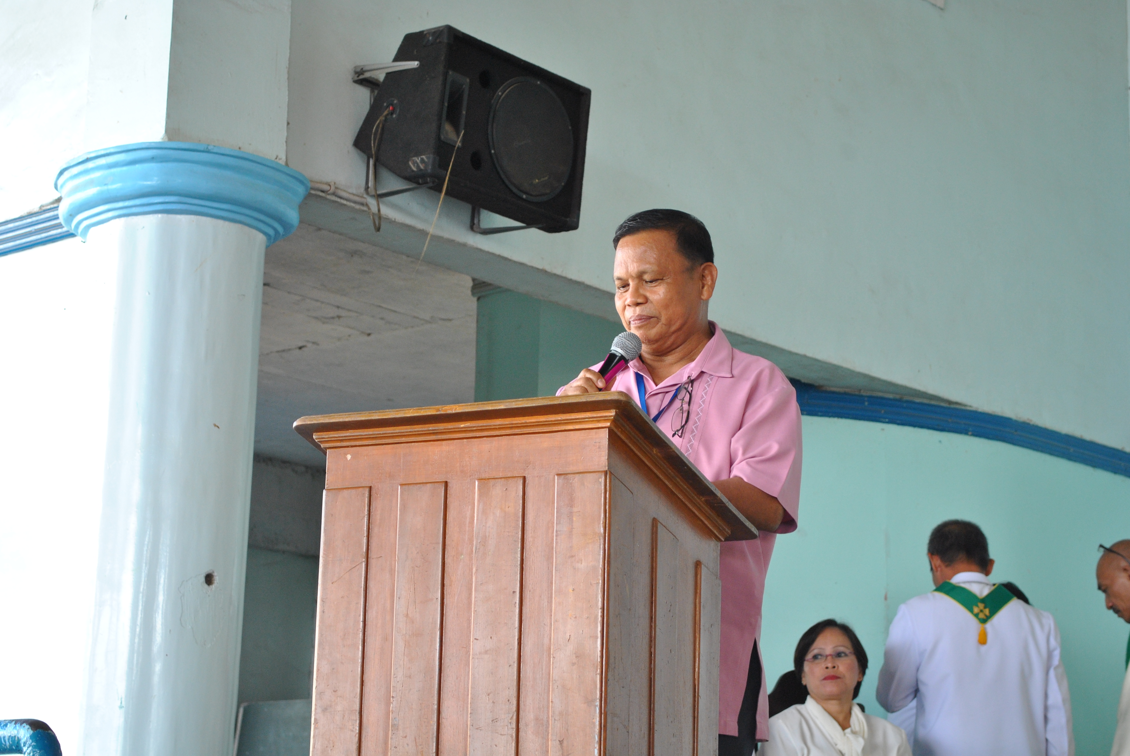 Mr. Teodorico S. Caballero, Secondary Schools Principal IV of TCNHS.